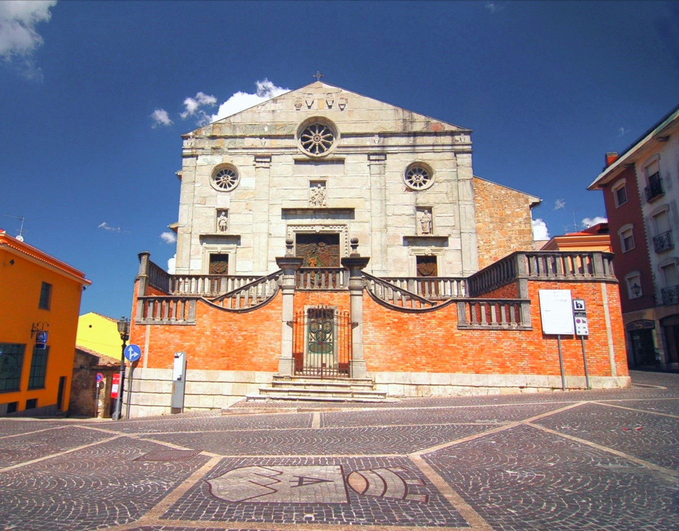 Ariano Irpino Cathedral, entitled to the Assumption of Mary